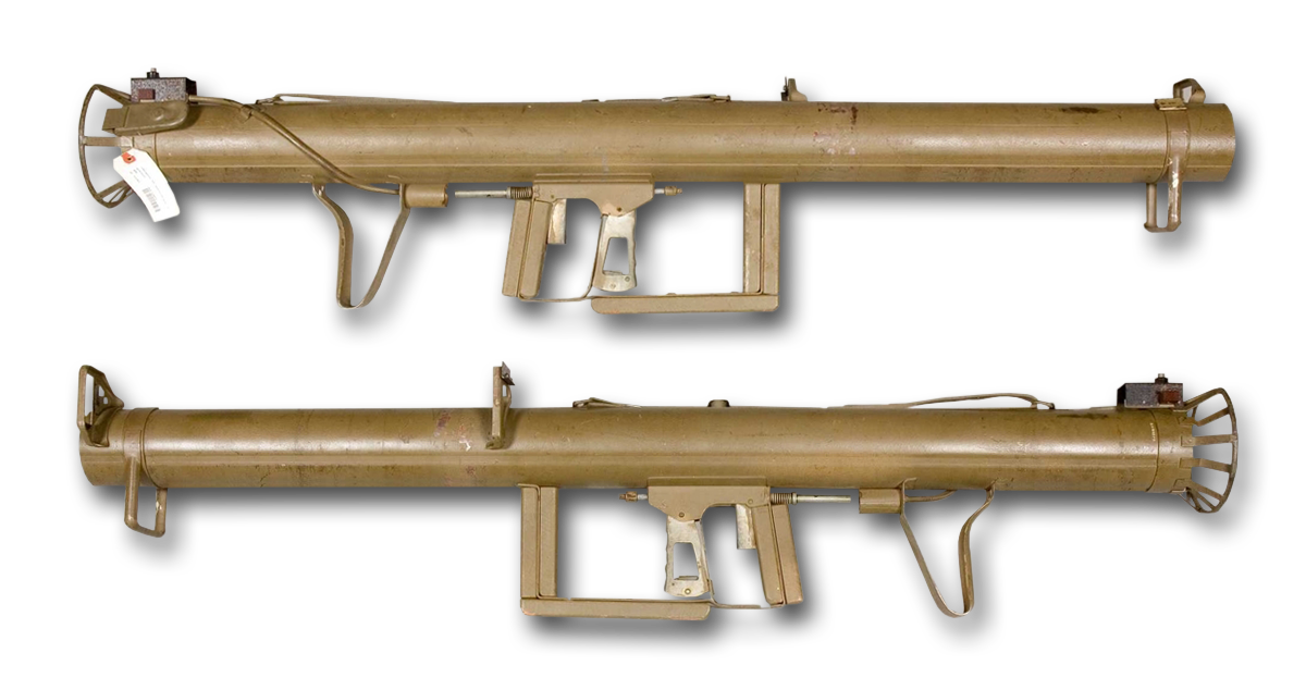 Panzerschreck (lit. "tank fright", "tank's fright" or "tank's bane") was the popular name for the Raketenpanzerbüchse 54 ("Rocket Anti-armor Rifle model 54" abbreviated to RPzB 54), an 88 mm reusable anti-tank rocket launcher developed by Nazi Germany in World War II. Another earlier, official common name was Ofenrohr ("stove pipe"). The Panzerschreck was designed as a lightweight infantry anti-tank weapon and was an enlarged copy of the American bazooka. The weapon was shoulder-launched and fired a fin-stabilized rocket with a shaped-charge warhead. It was made in smaller numbers than the Panzerfaust, which was a disposable recoilless gun firing an anti-tank warhead. The Panzerschreck in the photo is the model 43 (without the protective heat shield) and is part of the collections of the Swedish Army Museum in Stockholm.